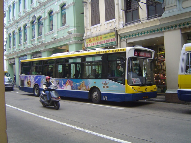 Bus Company: Transmac, Macau Bus Model: Dennis DART SLF Bus Fleet Number: 034 Bus route: 3 Photographer: User:fat_pig73. Venue in the photograph: Macau